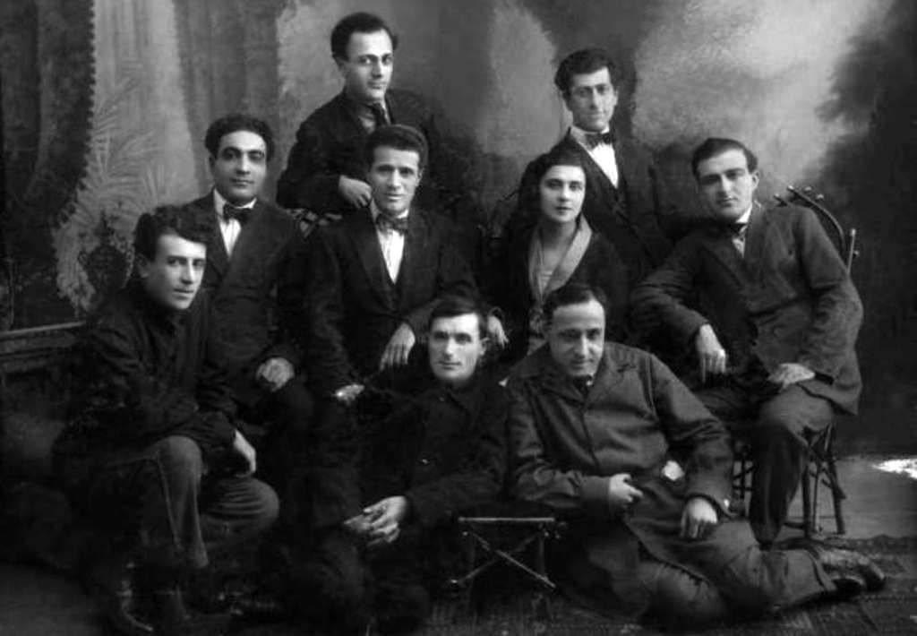 1st row: Gurgen Janibekyan, Bagrat Muradyan, Mkrtich Janan, 2nd row: Avet Avetisyan, Vagharsh Vagharshian, Arus Voskanyan, Hrachia Nersisyan, 3rd row: Ori Buniatyan, Hambartsum Khachanyan